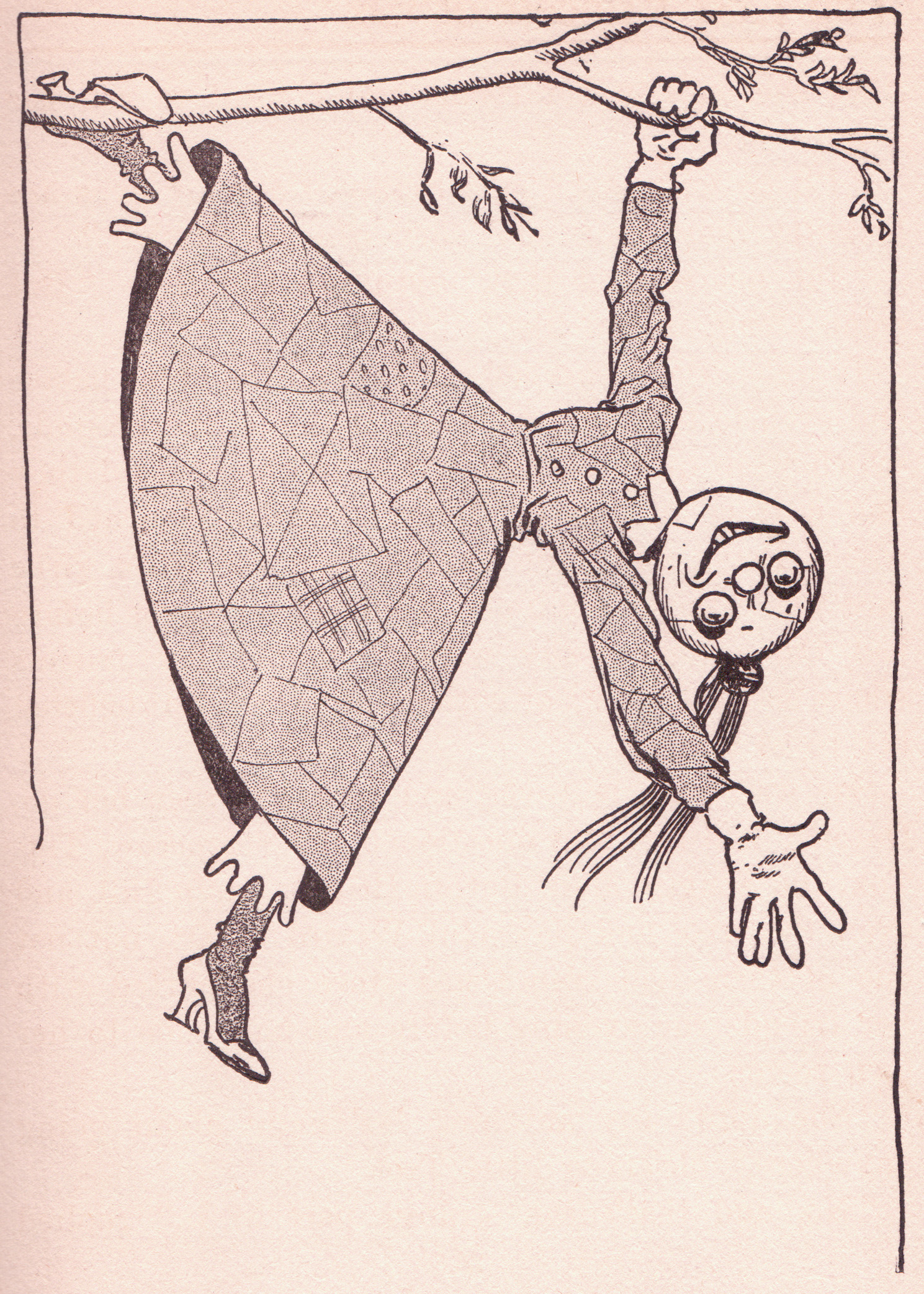 The Lost Princess of Oz by L. Frank Baum, Illustrated by John. R Neill, Copyright The Reilly & Britton Co., Chicago, 1917 Flickr data on 2011-08-23: Tags: public domain, book, vintage, illustration, drawing, OZ, The Lost Princess of OZ, 1917 License: CC BY 2.0 User: perpetualplum Sue Clark